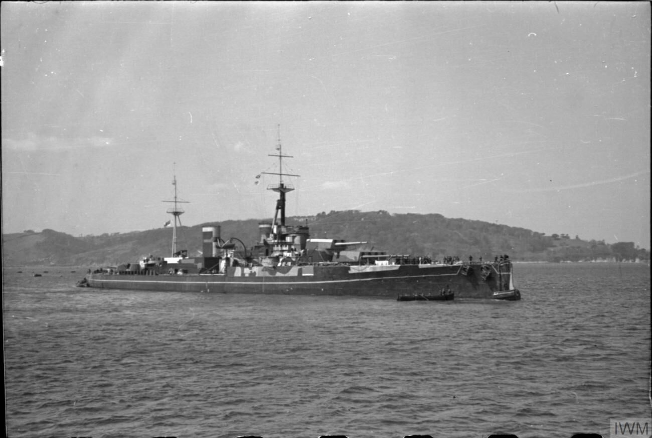 The Royal Navy during the Second World War HMS CENTURION moored and "refitted" to act as the double for HMS ANSON. Her aft funnel and gun turrets are dummies.